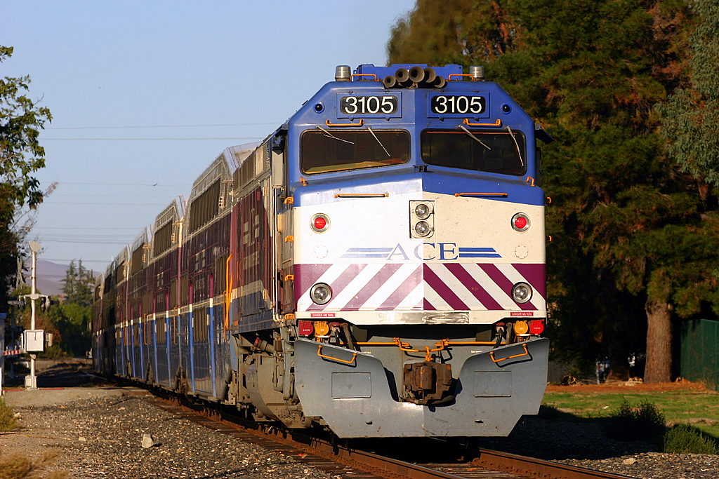 Altamont Commuter Express-Train at Pleasanton on it's way towards Altamont Pass on November 2nd, 2007.